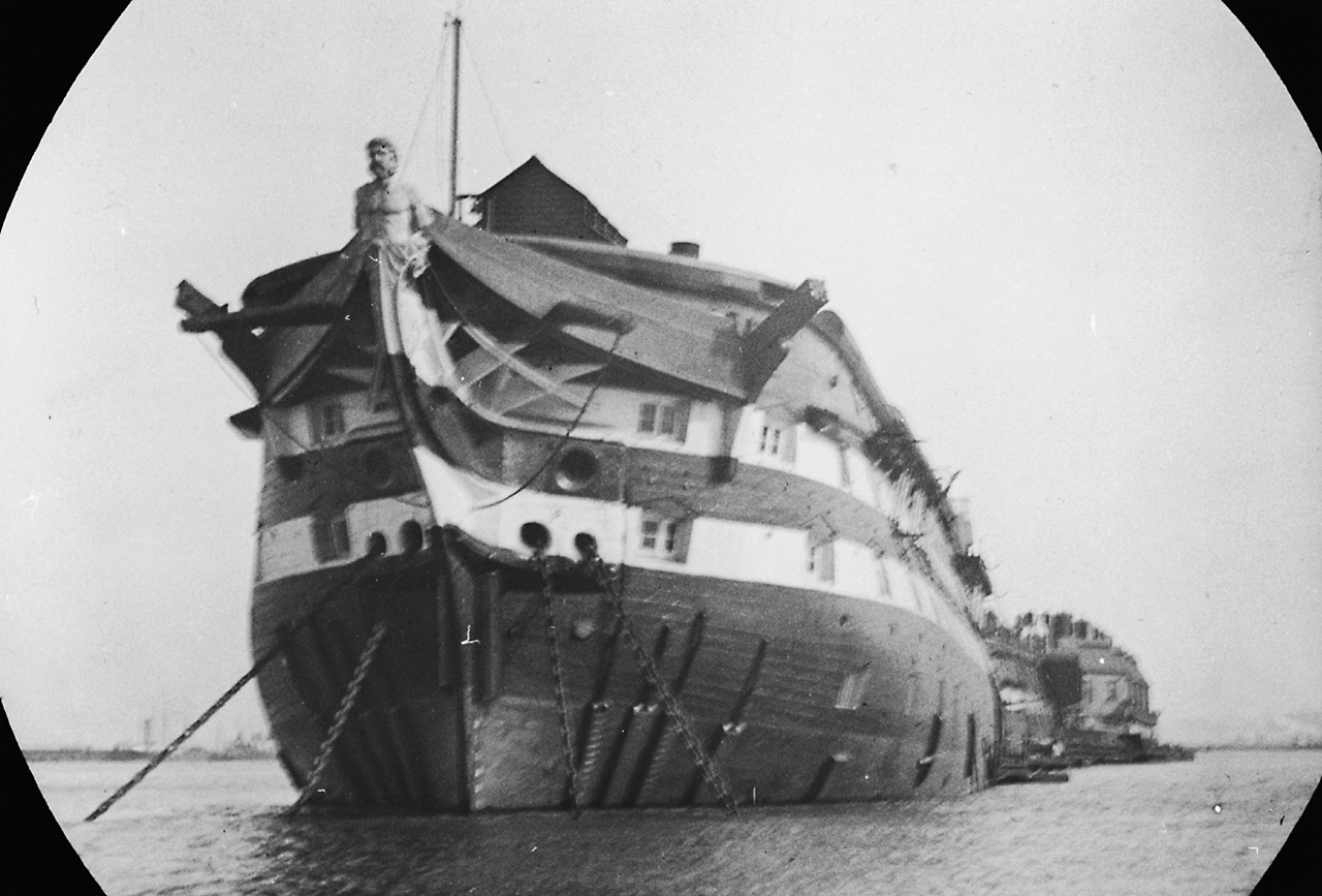 HMS Atlas, launched 1860 but never completed. Served as a hospital ship at Greenwich from 1881 - 1904. HMS Endymion is astern of Atlas